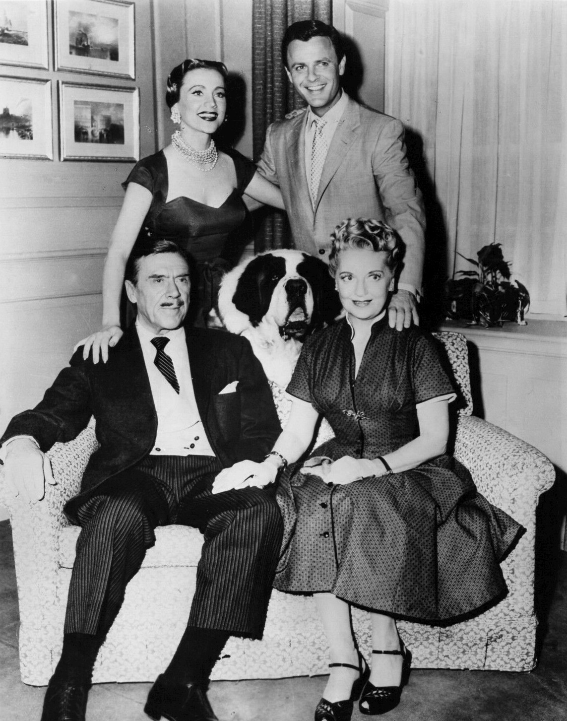 Photo of the cast of the television program Topper. Standing-Anne Jeffreys (Marion Kerby), Robert Sterling (George Kerby). Center-Neil. Seated-Leo G. Carroll (Cosmo Topper), Lee Patrick (Henrietta Topper).